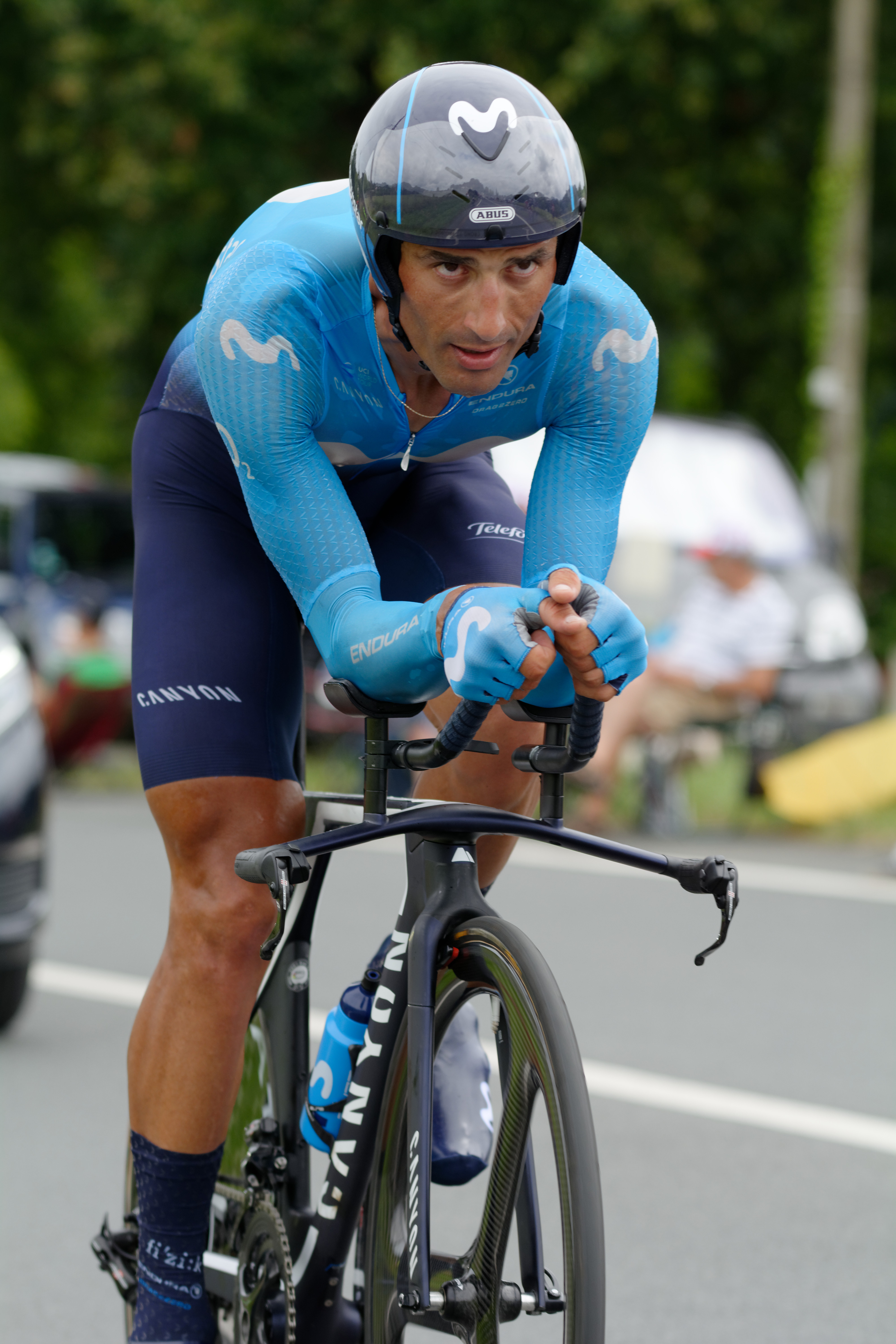 2018 Tour de France